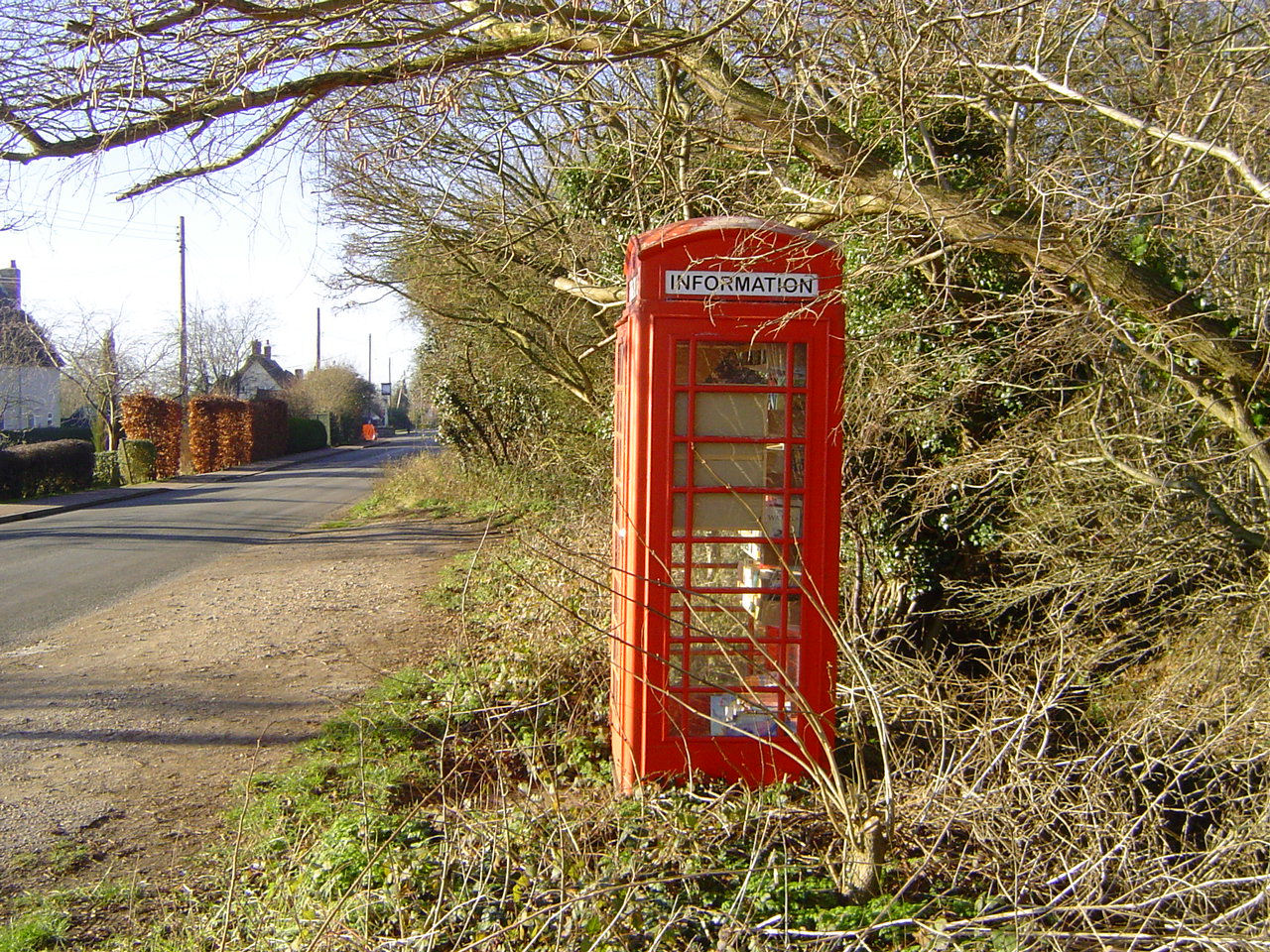 Re-use of red telephone box as a small book swap shop in Lawshall, Suffolk.